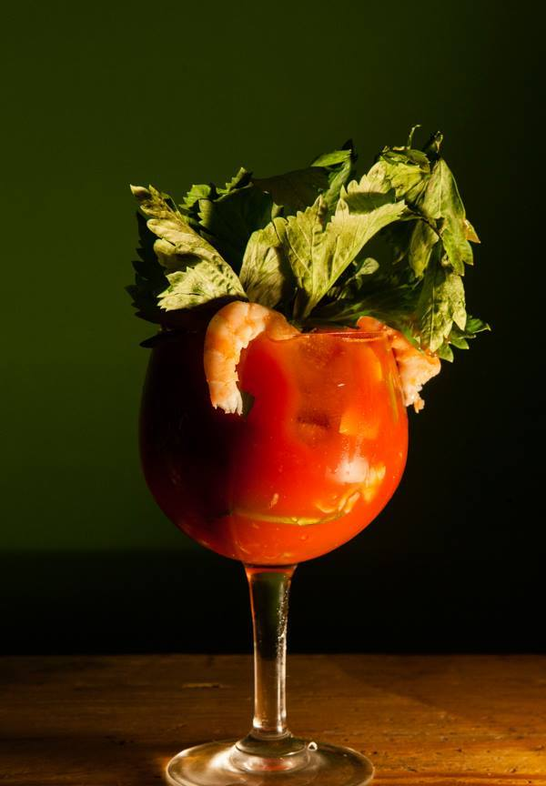 Prawn bloody mary